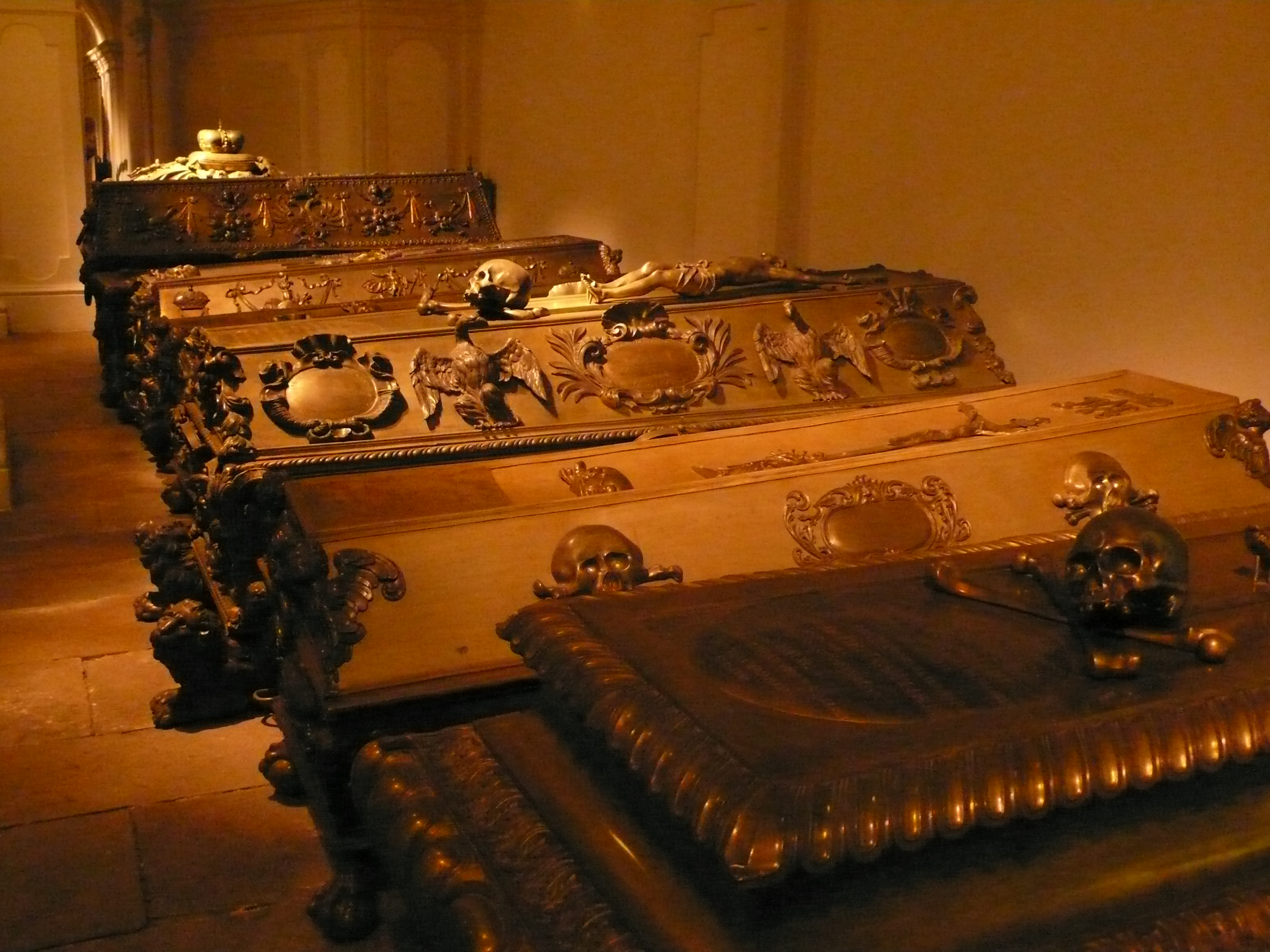 Austria, Vienna, Capuchin Church, Imperial Crypt